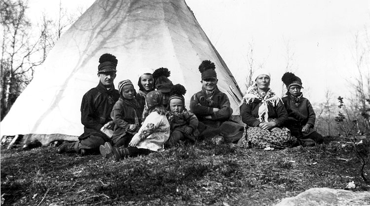 The Skum family, Sami from Karesuando in northernmost Sweden, dislocated to Ammarnäs in Västerbotten county, Sweden.